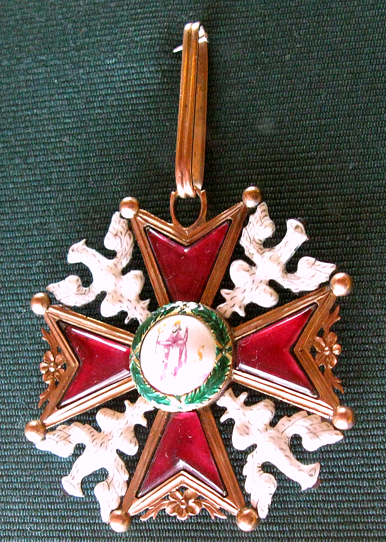 Cross of the Polish Order of Saint Stanislaus from XVIII century